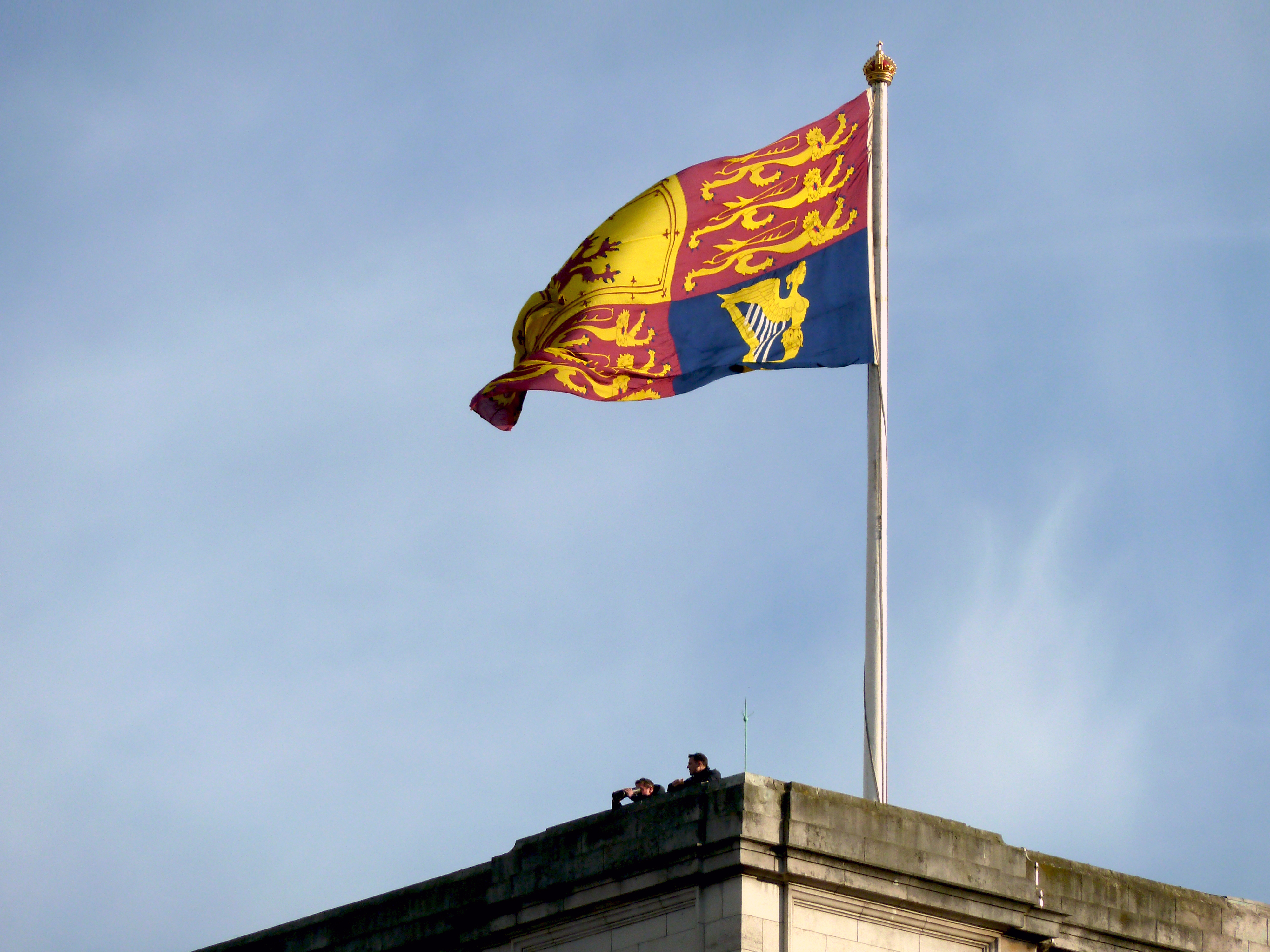 The Royal Standard flying above the entrance to Buckingham Palace, London.